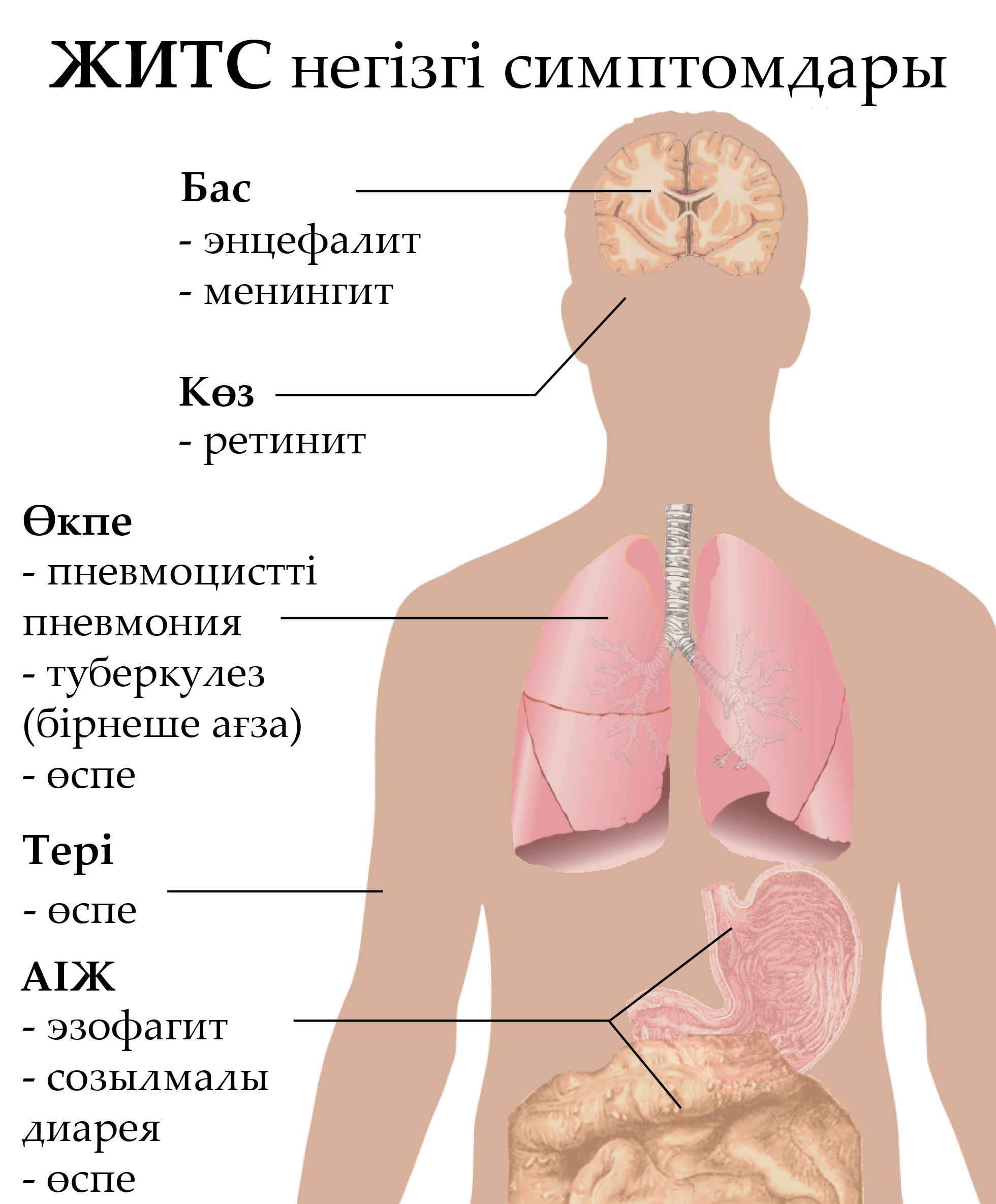 Main symptoms of AIDS, as described in the Wikipedia:AIDS article.